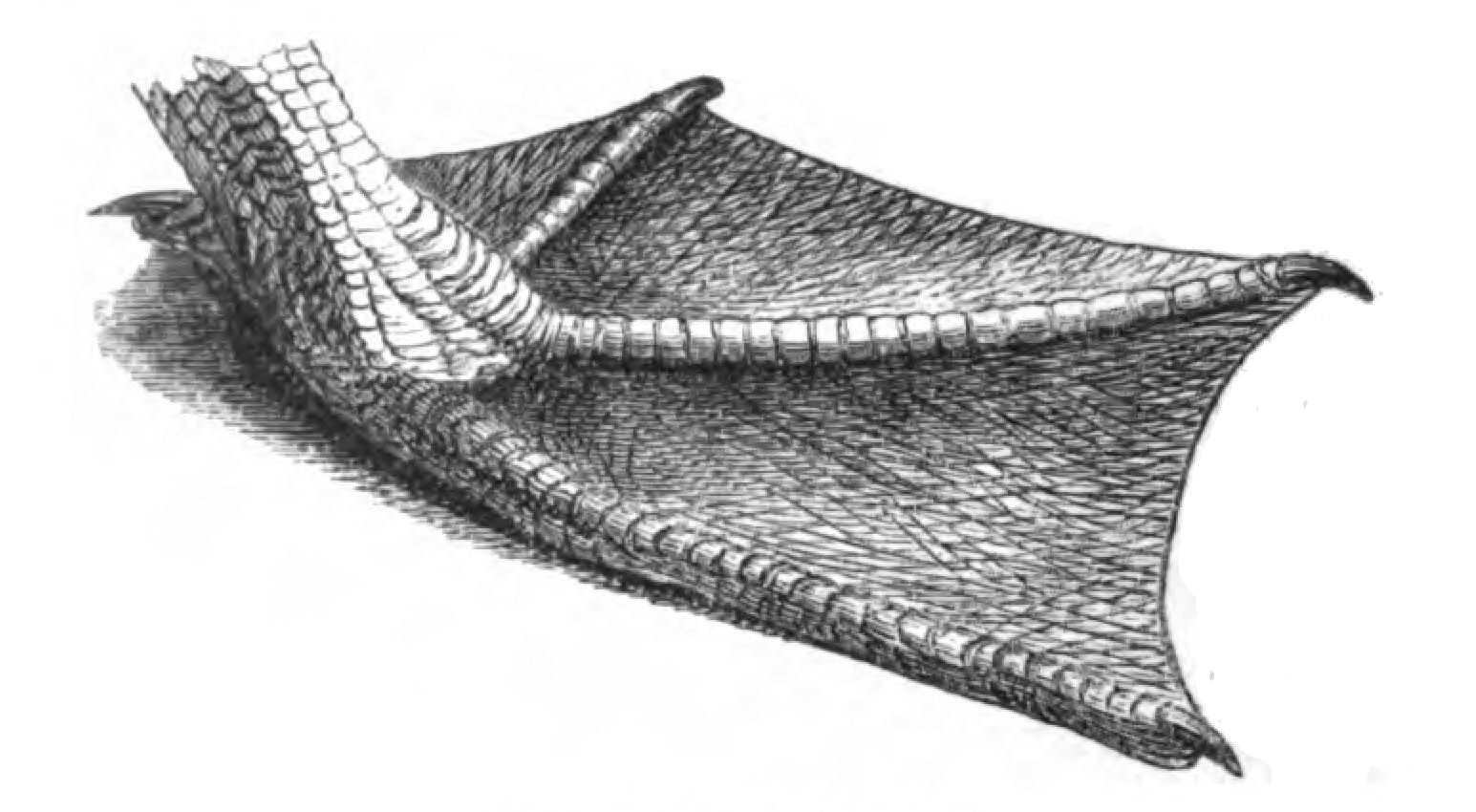 Foot of Pelican. Image from Natural History, Birds.